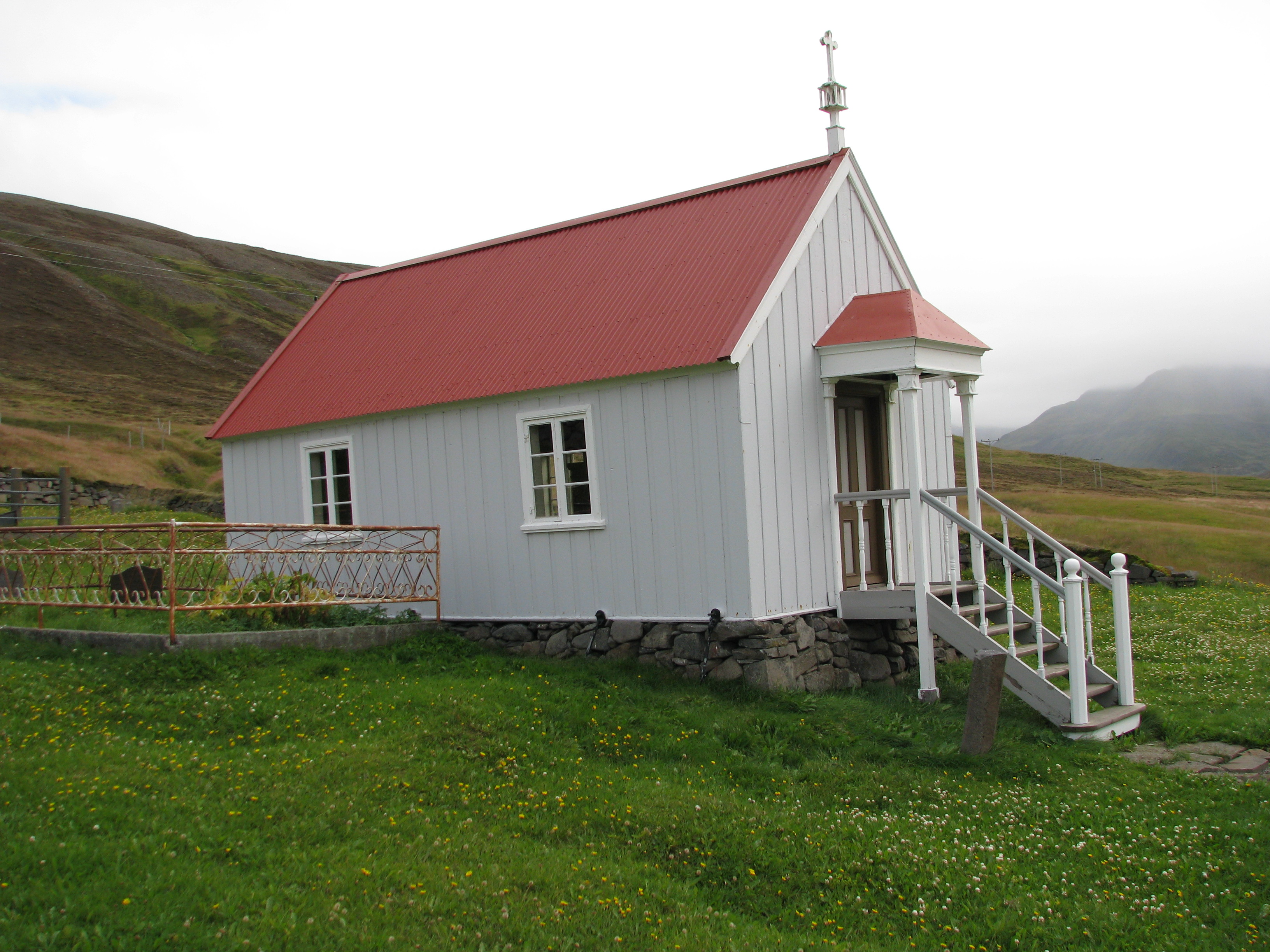 Knappsstadakirkja, athe oldest church on Iceland.